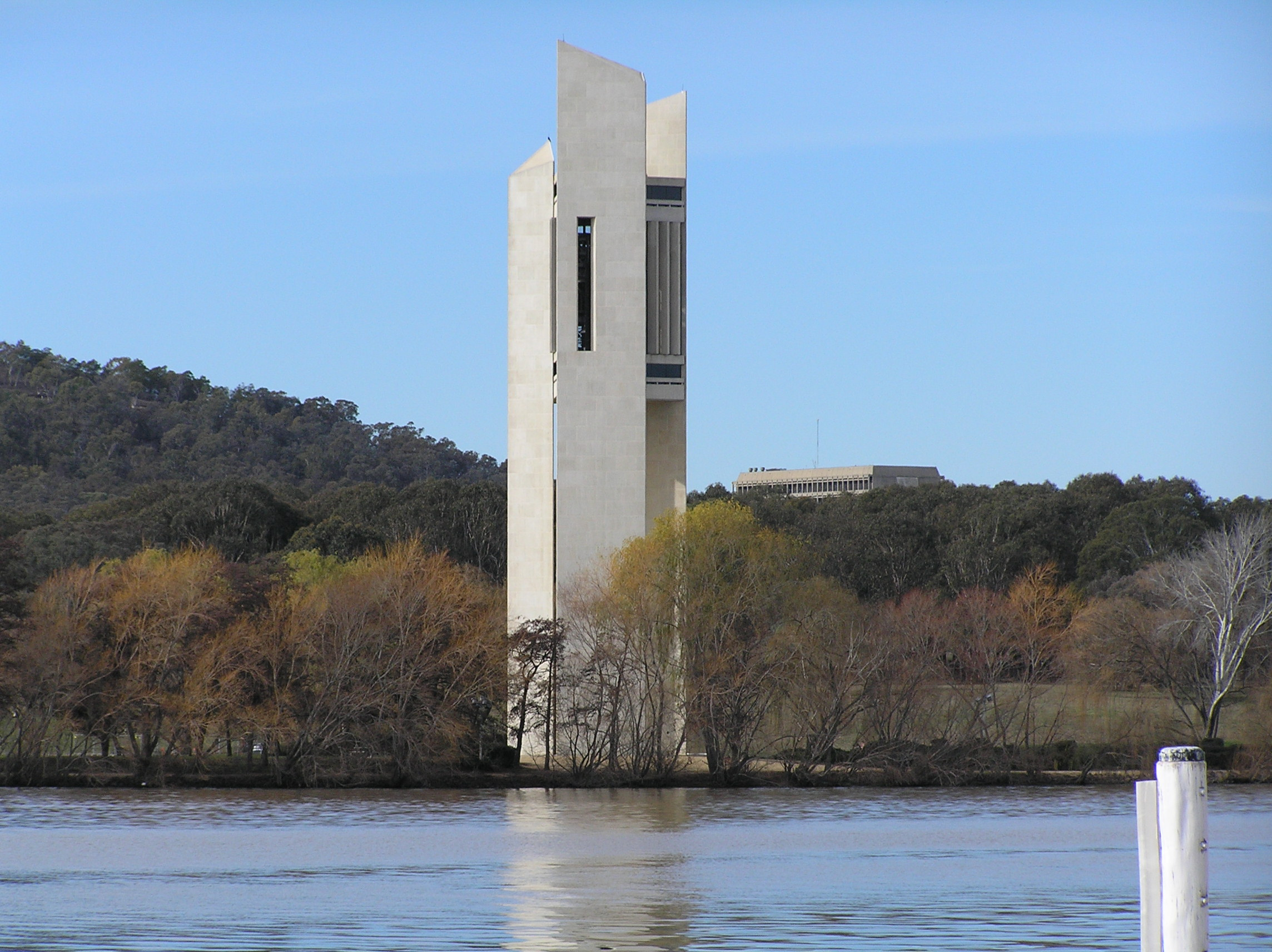 View of the National Carillon, Canberra, ACT with Lake Burley Griffin in the foreground. Photo taken July 2005 by Brenden Ashton.